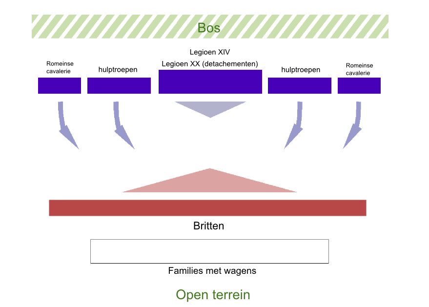 Layout of the battle of Walting Street between Boudicca and the Romans in AD 61.